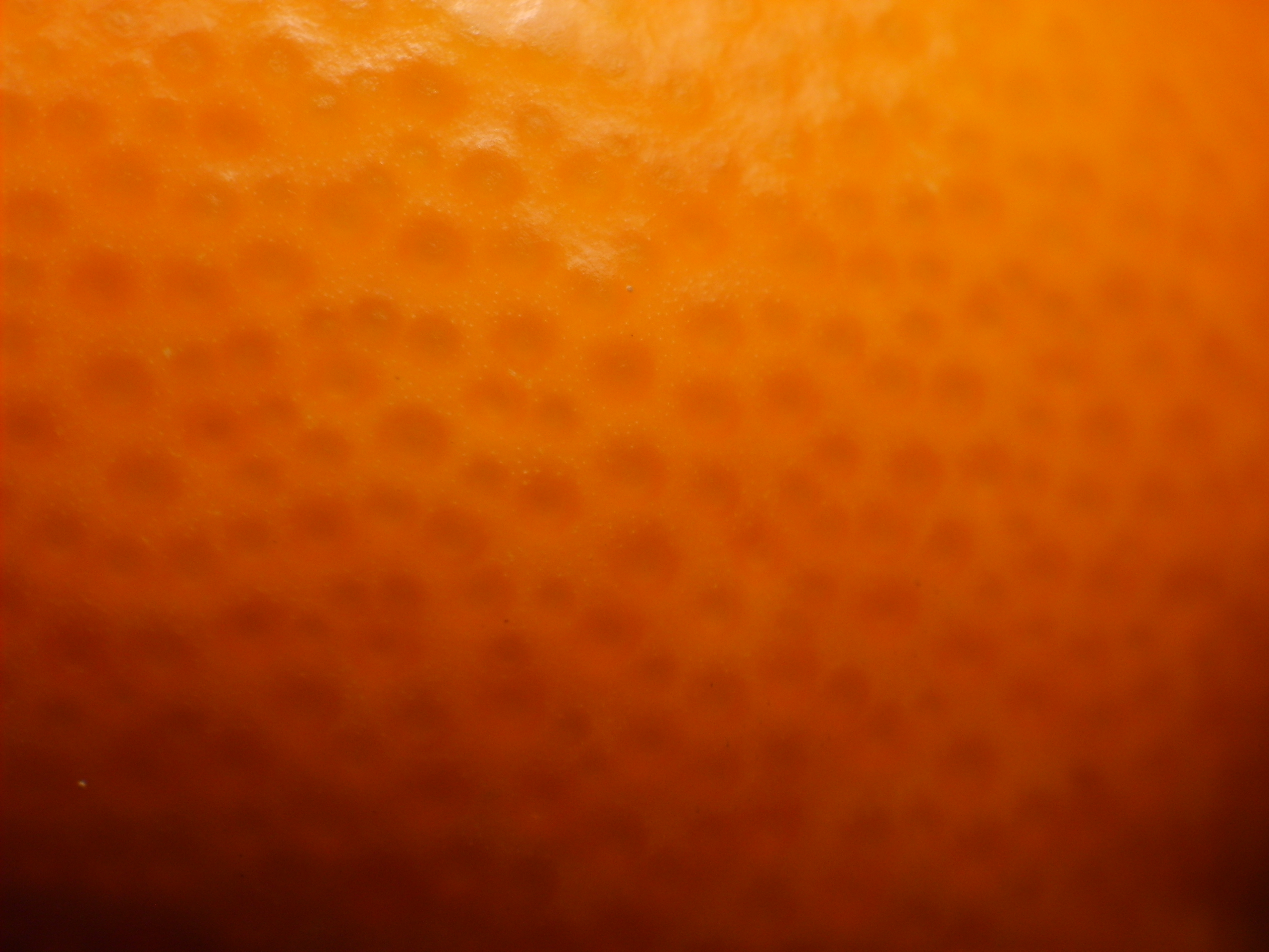 A tangerine close-up.